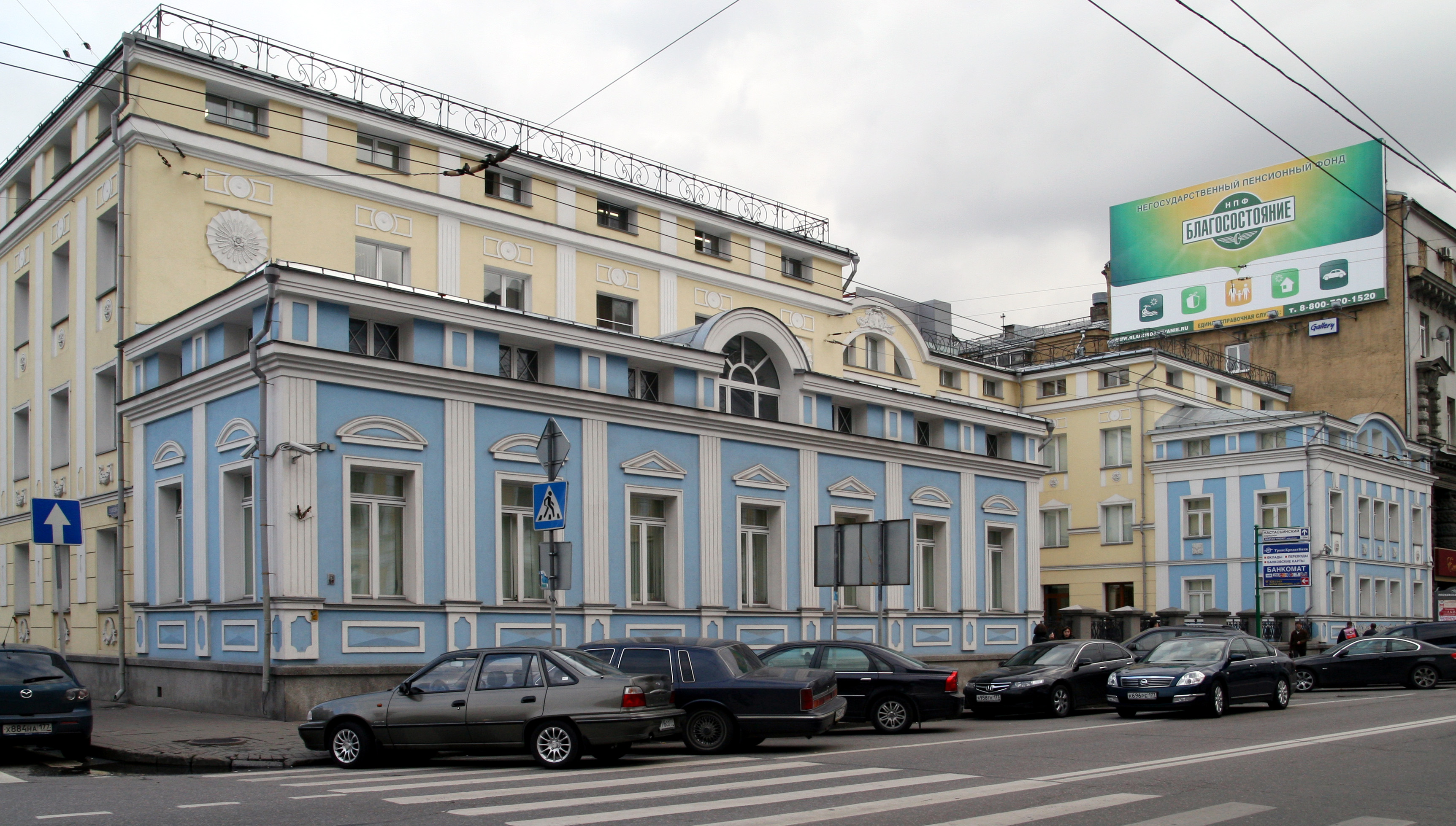 Moscow, Malaya Dmitrovka Street 10